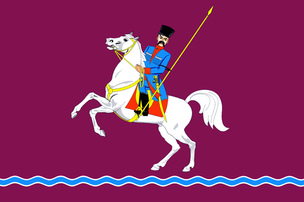 Flag of Leningradsky rayon, Krasnodar Territory, Russia